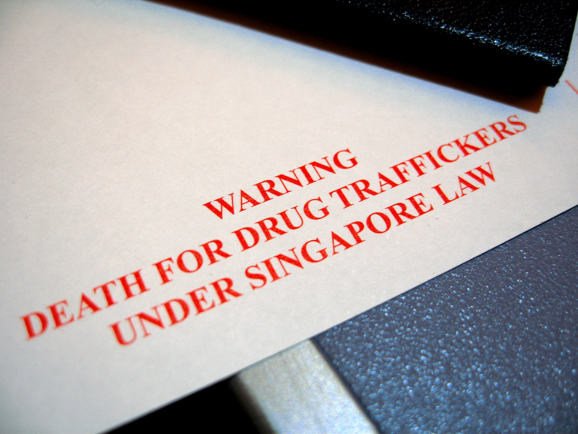 A disembarkation/embarkation form issued by the immigration authorities of Singapore bearing the statement "WARNING: DEATH FOR DRUG TRAFFICKERS UNDER SINGAPORE LAW".